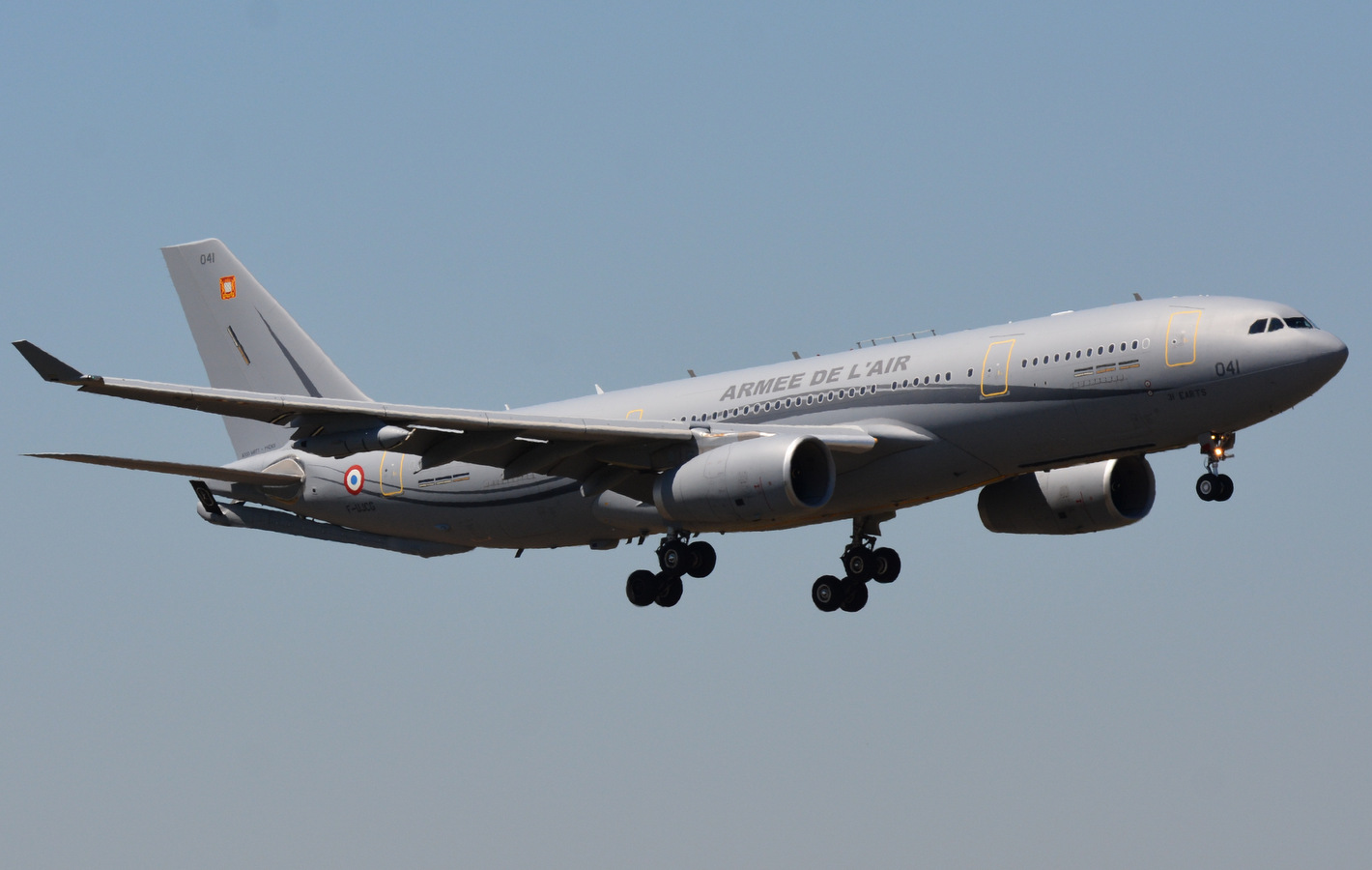 Paris-Orly Airport